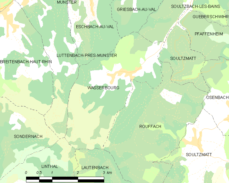 Map of French municipality